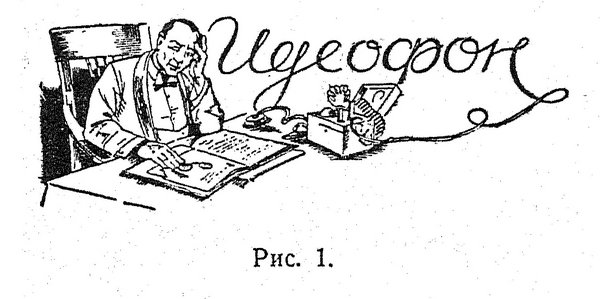 Alexander Belyayev - Illustrations in science fiction